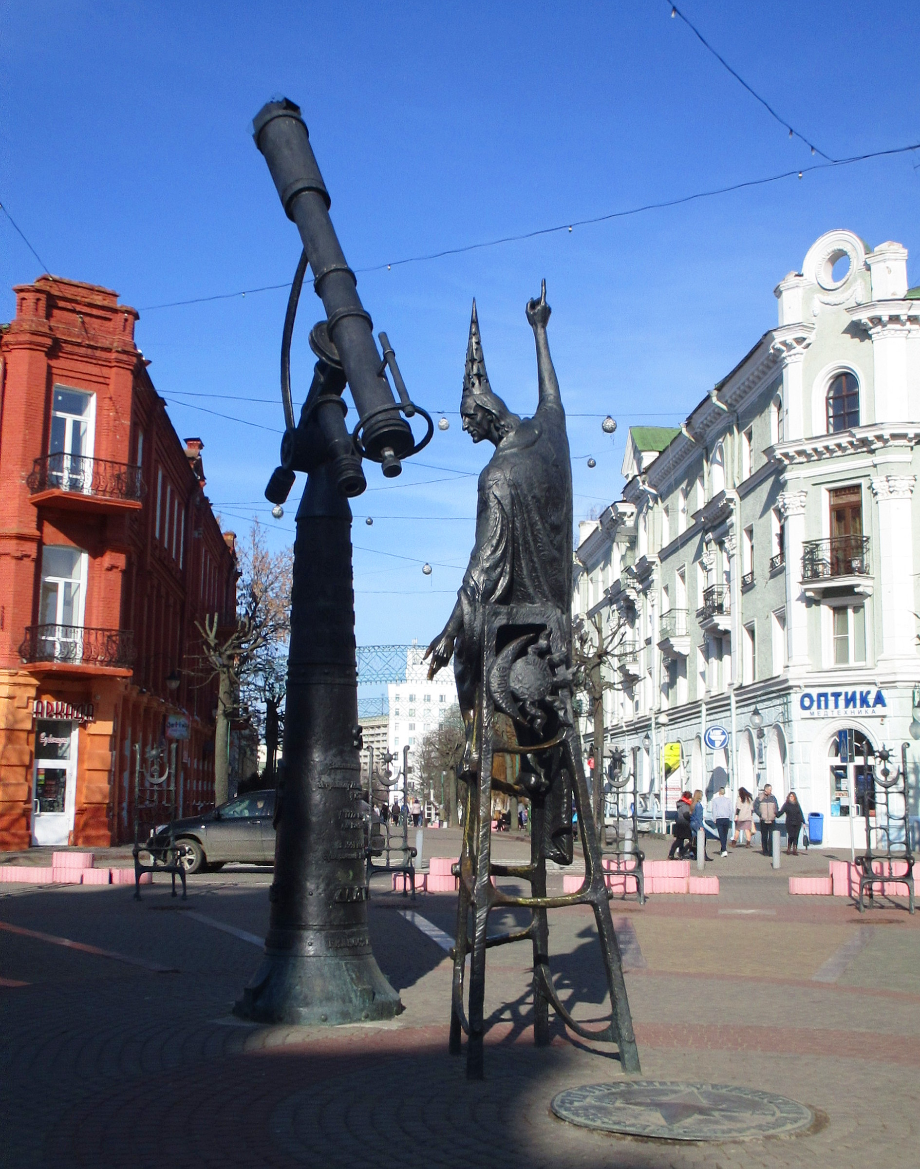 Stars counter. Mohilev